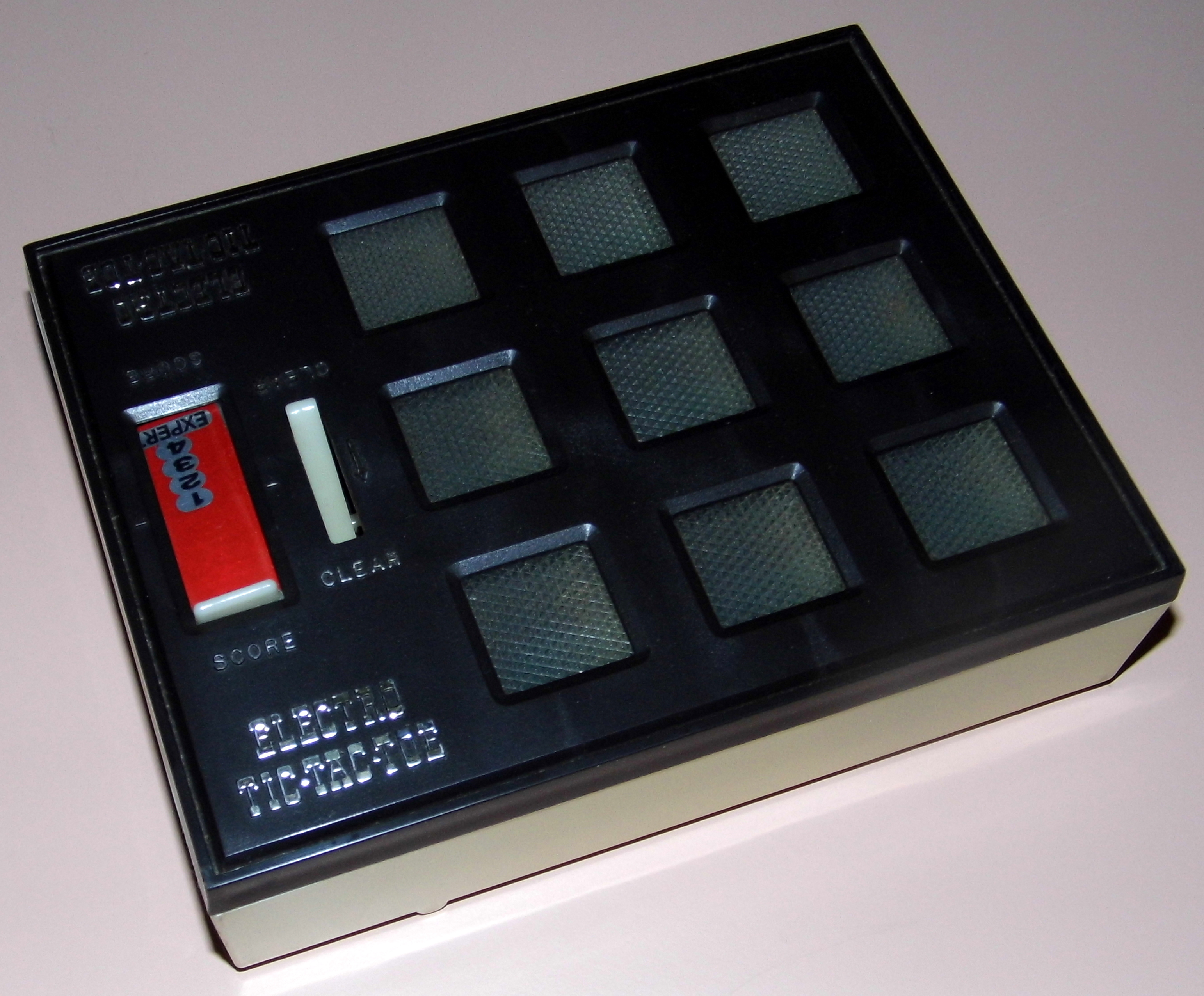 Vintage Electronic Tic-Tac-Toe By Waco, Made In Japan, Copyright 1972 from Flickr album "[ Vintage Handheld and Other Electronic Games ]" by Joe Haupt "A good source of information on vintage handheld electronic games is the Electronic Handheld Game Museum ."